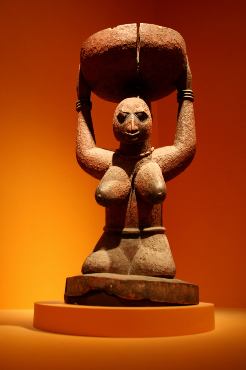 Female Figure, Yoruba peoples, Igbomina region, Nigeria, Late 19th to mid-20th century, Wood, paint, beads. Whether going to market or participating in a religious procession, people in most of Africa traditionally carry loads atop their heads. This depiction of a bowl carrier or arugba is from a shrine dedicated to the god Shango in the village of Oke Onigbin. Shango, the god of thunder, punishes wrongdoers and rewards the devout by giving them children. This woman is a devotee, humble before her god and waiting to bear the god's thunderbolts in the form of Neolithic stone axes.